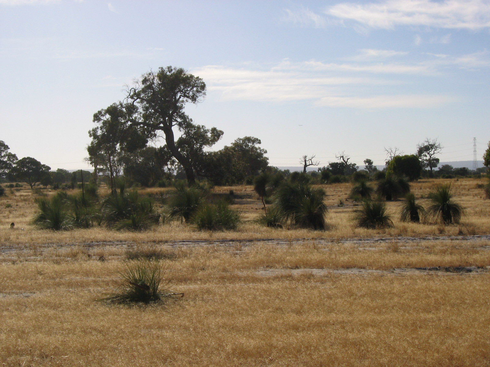 View east over Cullacabardee, just inside Whiteman Park.